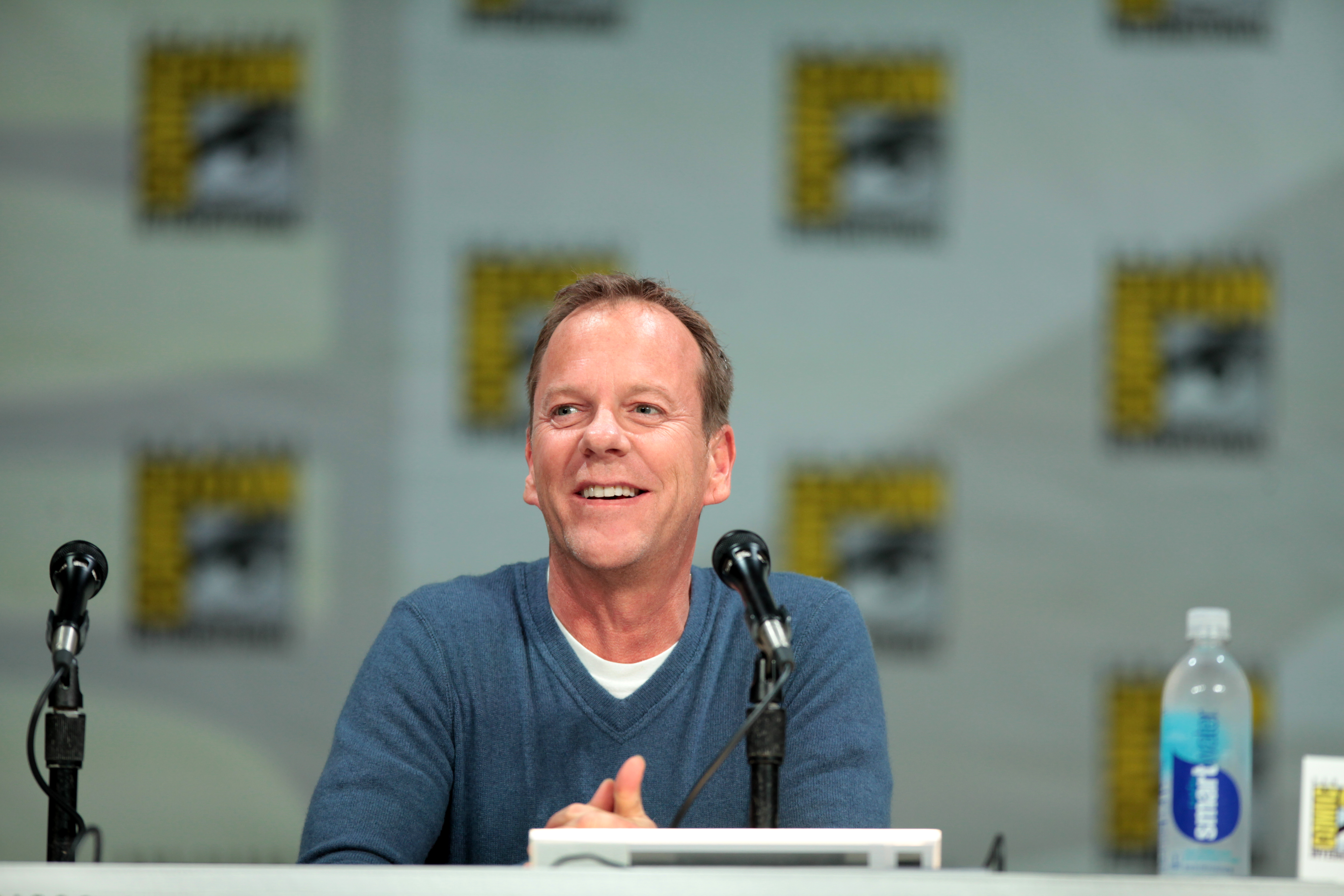 Kiefer Sutherland speaking at the 2014 San Diego Comic Con International, for "24: Live Another Day", at the San Diego Convention Center in San Diego, California.